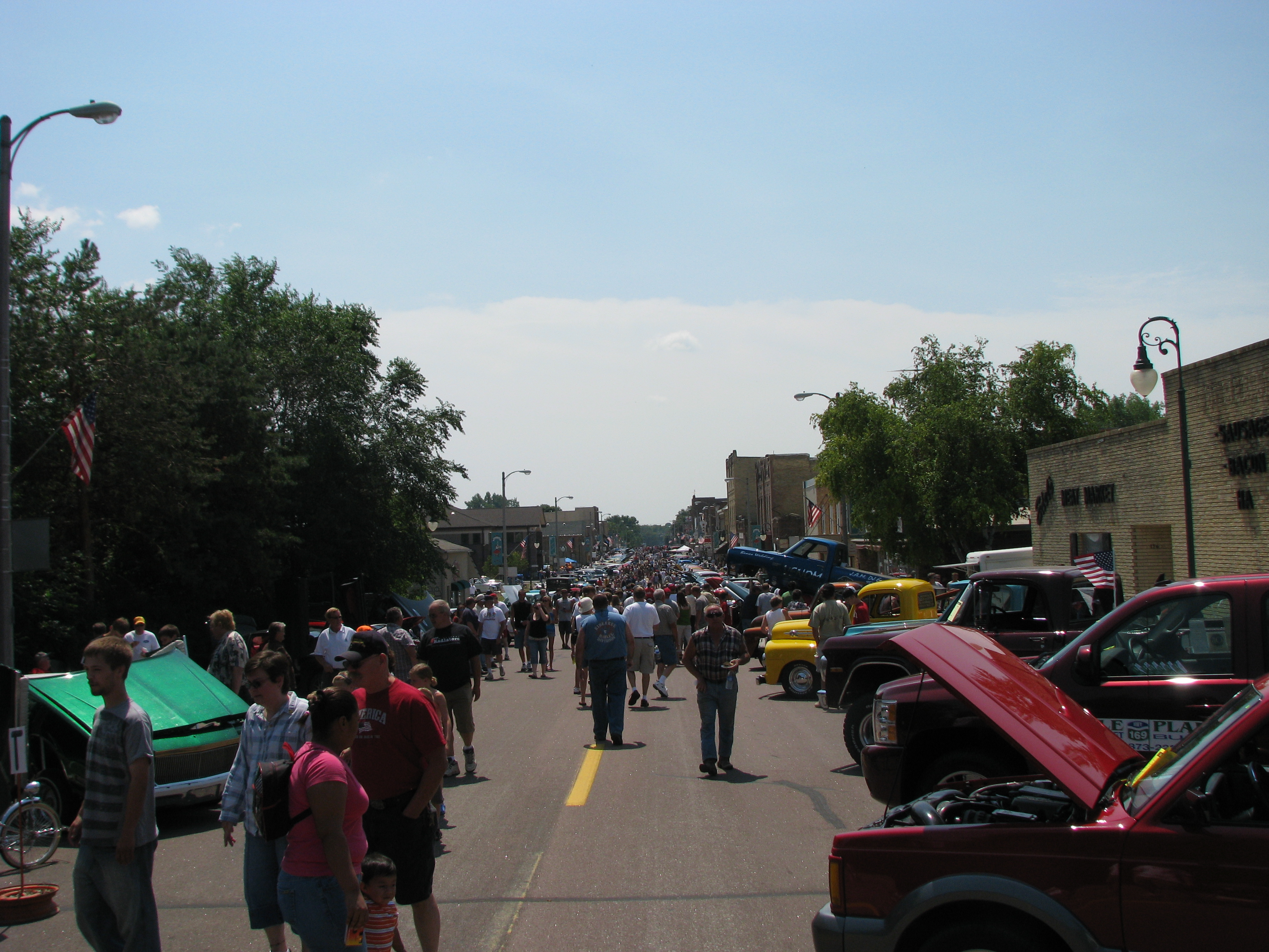 taken Saturday, July 26th 2008 at the annual Kolacky Days Car show.